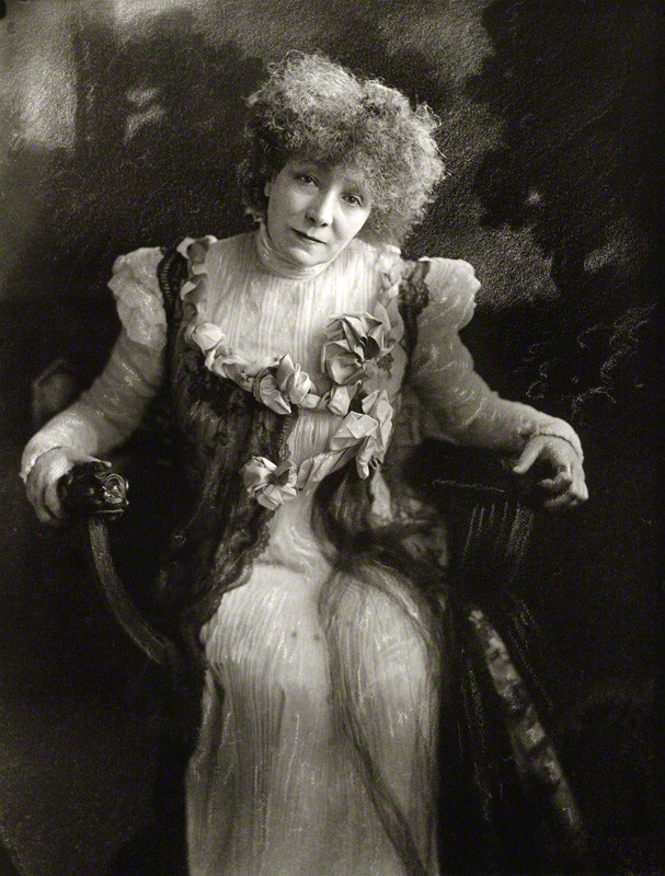 Photograph of Sarah Bernhardt